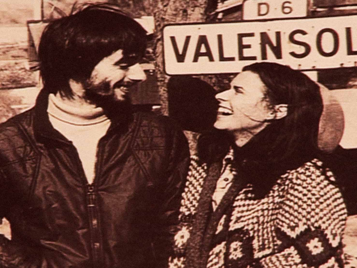 Mikel Goikoetxea, Txapela, member of ETA, killed by GAL